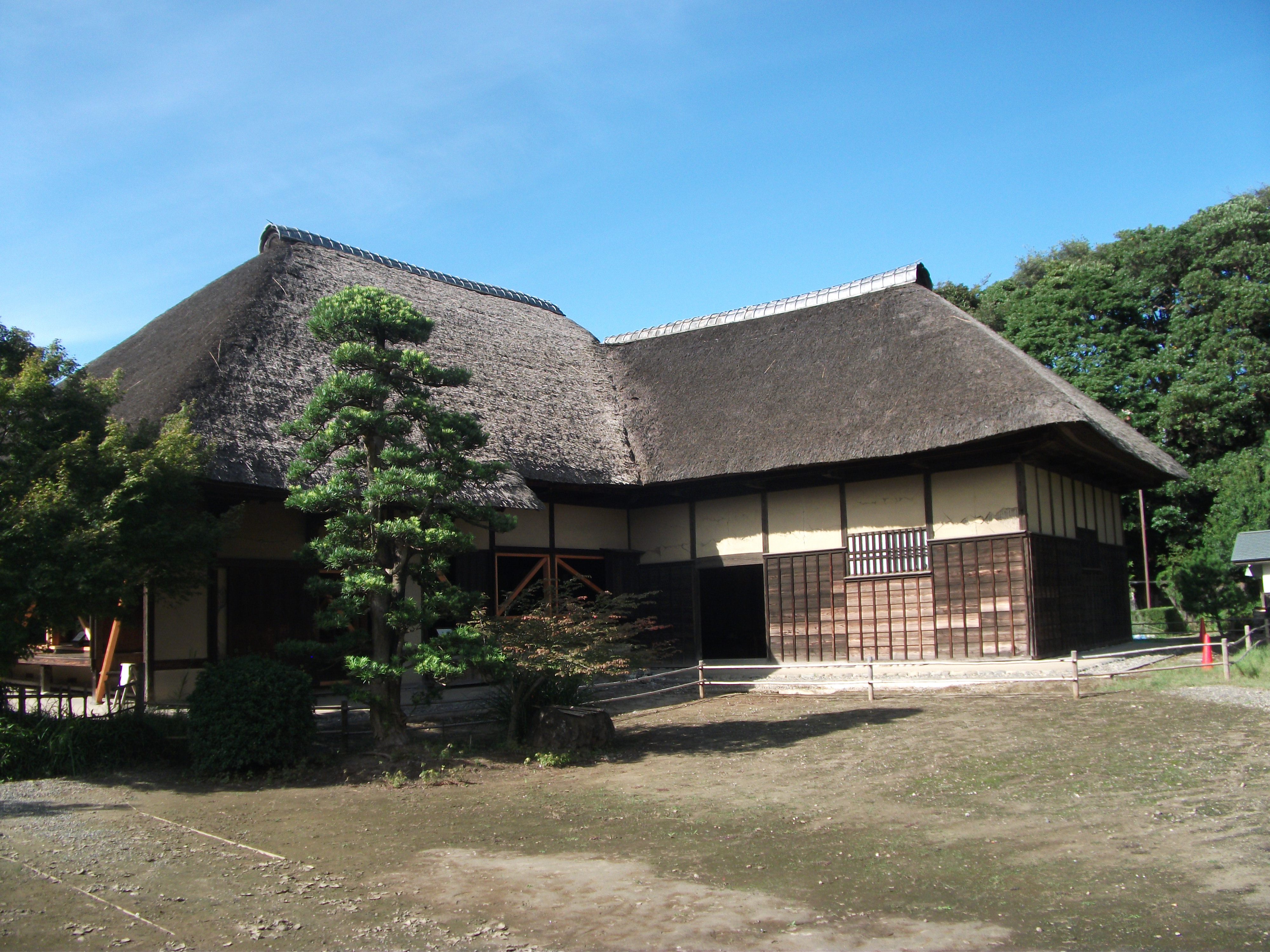 Old Tokita House in the Mimomi Hongo Park in Narashino City, Chiba Prefecture, Japan